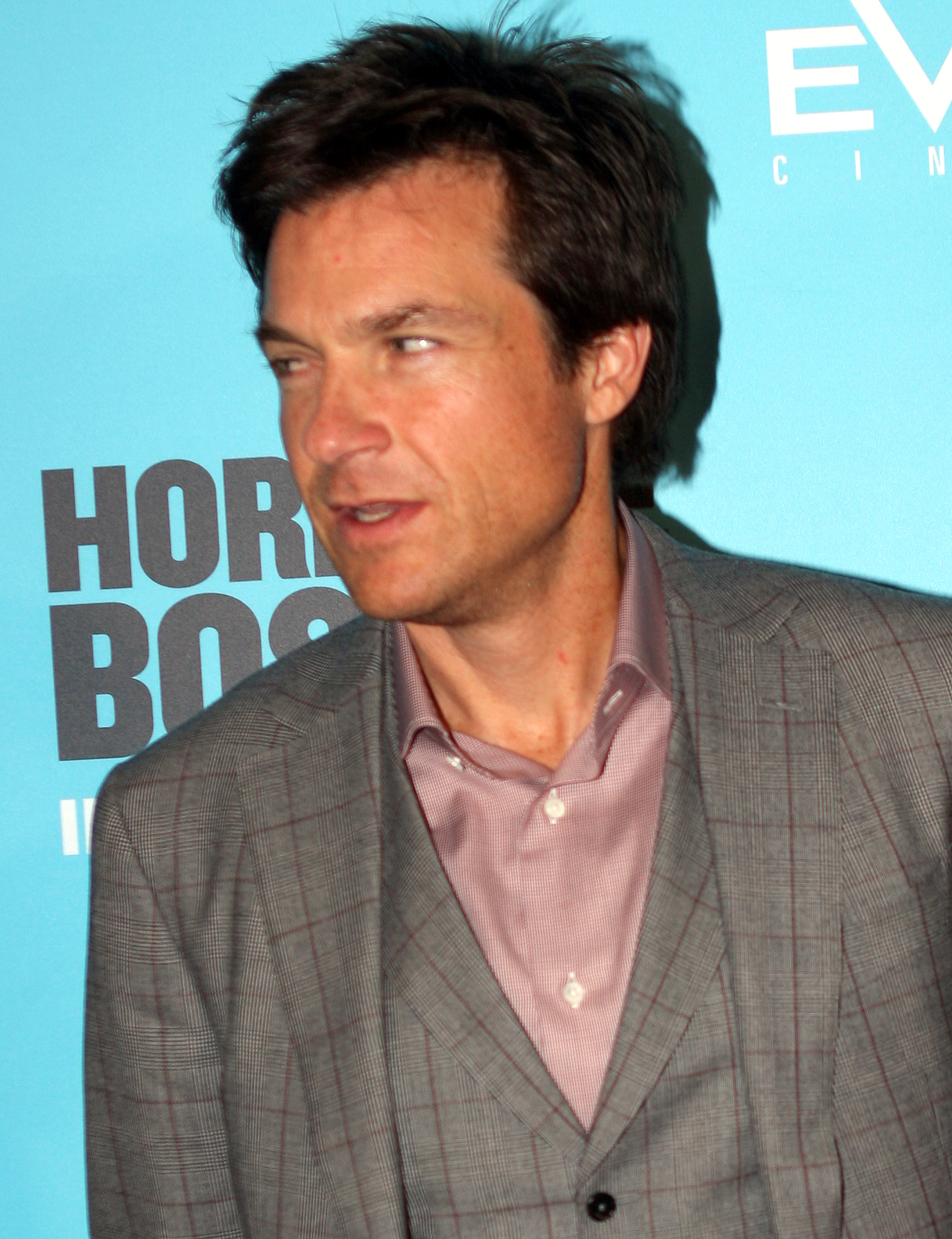 Jason Bateman at the Horrible Bosses Premiere 2011.